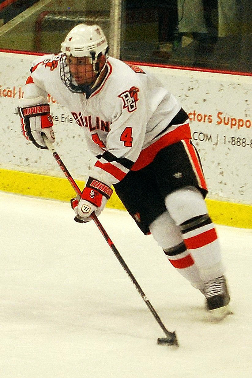 BGSU ice hockey player in a game vs. Ferris State on Nov 4, 2011.